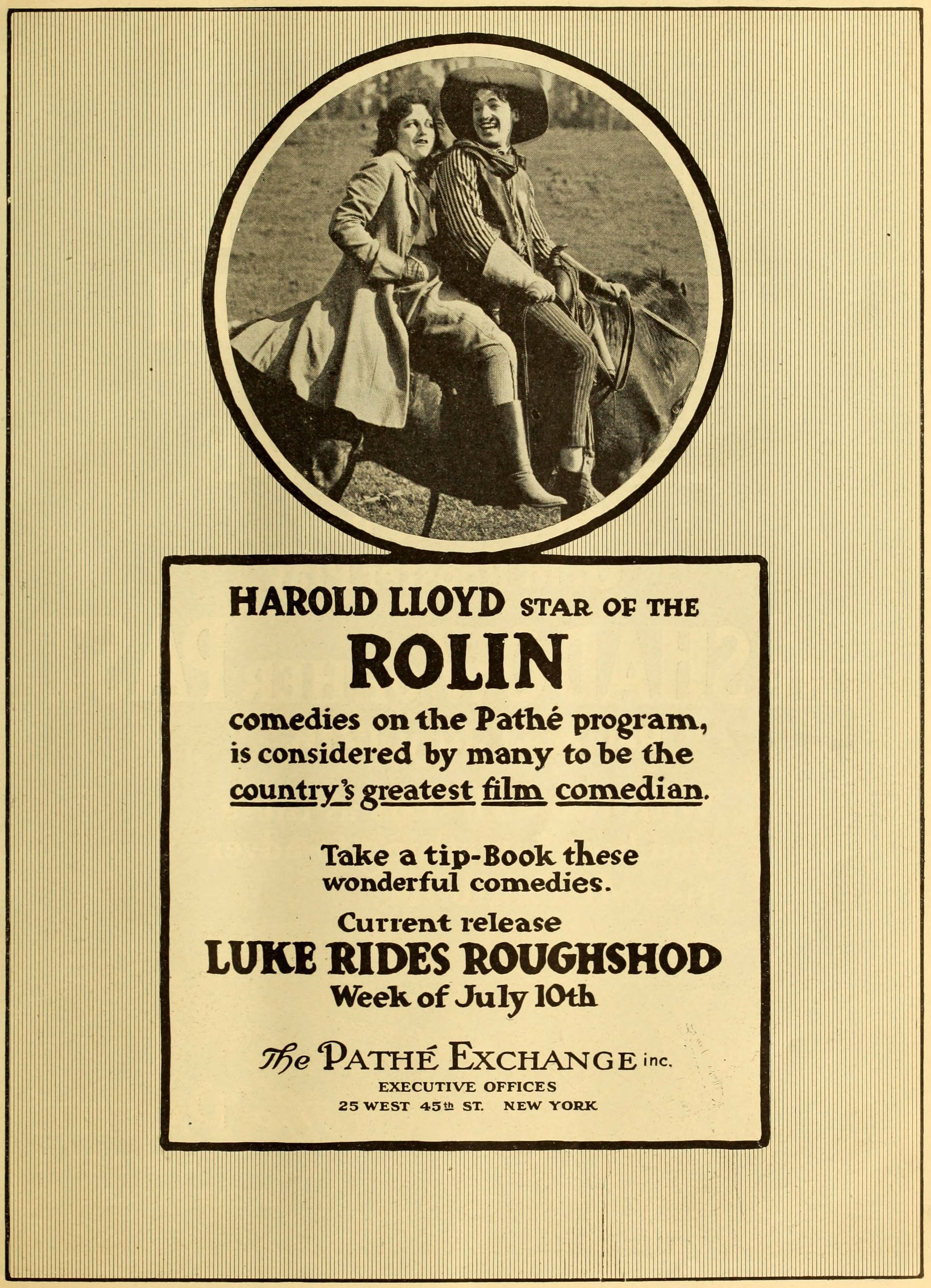 Advertisement in The Moving Picture World for the film Luke Rides Roughshod (1916).